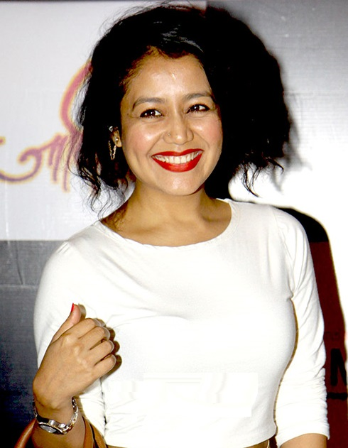 Neha Kakkar at Cinemax